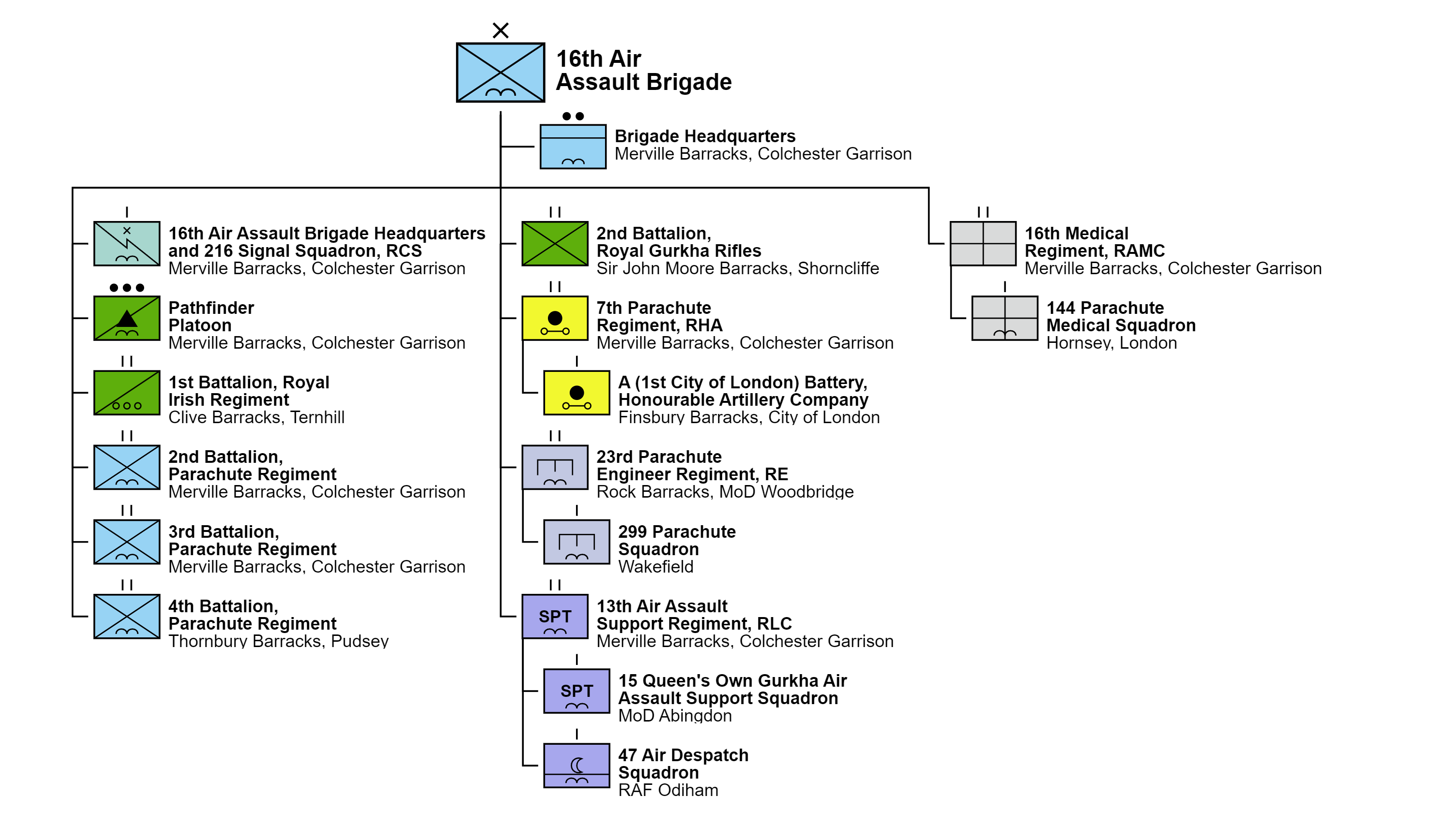 16 Air Assault Brigade (UK)